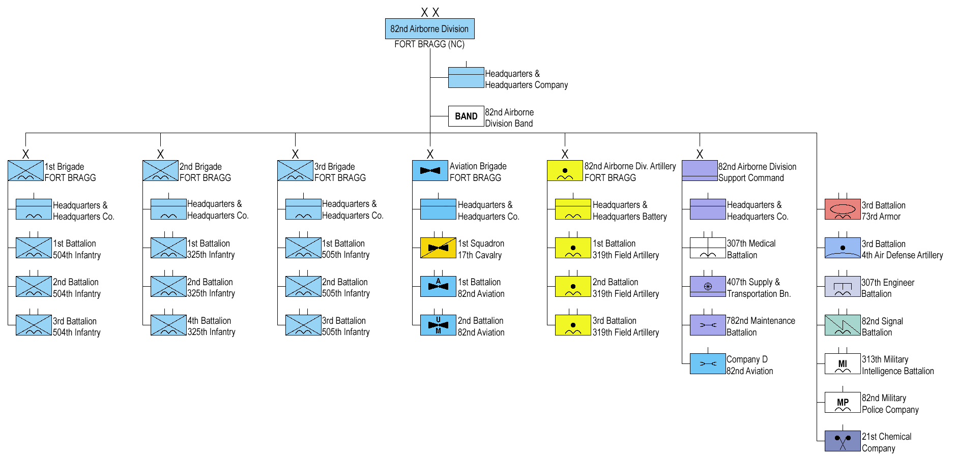 US Army 82nd Airborne Division Structure in 1989